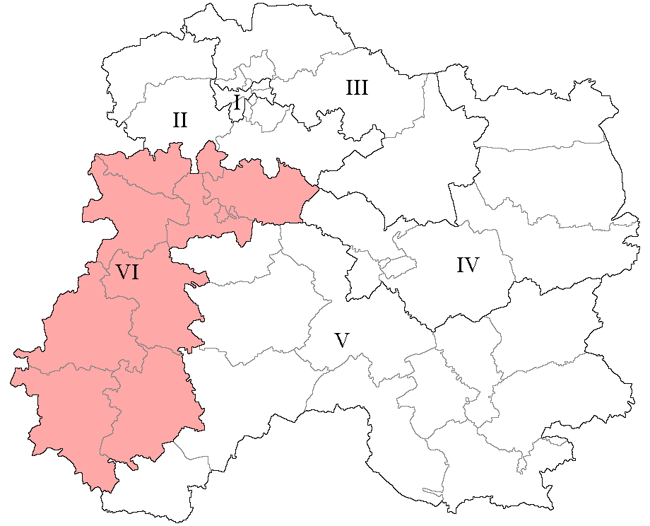 Locator map of the Marne's 6th constituency between 1988 and 2012